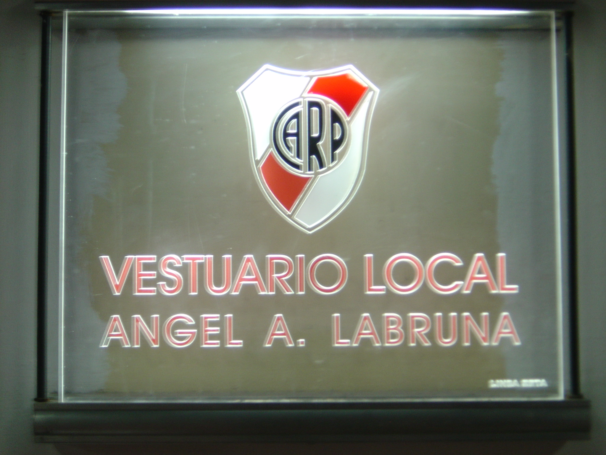 Entrance to locker room of River Plate.